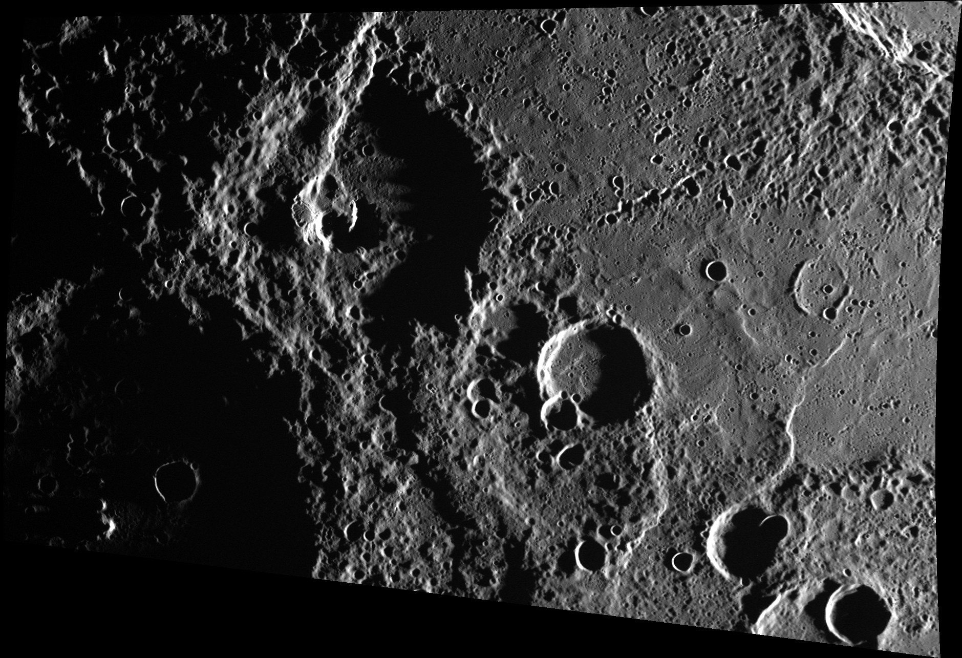 The crater at left of center is now named Enheduanna, and the scarp cutting through it is Victoria Rupes. Date acquired: July 23, 2012 Image Mission Elapsed Time (MET): 251543770 Image ID: 2254442 Instrument: Wide Angle Camera (WAC) of the Mercury Dual Imaging System (MDIS) WAC filter: 7 (748 nanometers) Center Latitude: 47.62° Center Longitude: 326.8° E Resolution: 212 meters/pixel Scale: The large crater towards the decanter of the image is approximately 105 km (65 mi.) in diameter. Incidence Angle: 86.9° Emission Angle: 50.2° Phase Angle: 137.2° Of Interest: This large crater near the center of the image is in need of a name, and you could name it! This complex crater has been deformed by Victoria Rupes, a scarp that formed as a result of global contraction. At the center of the crater floor lies an irregularly shaped volcanic vent, which appears bright and orange in color images obtained by MESSENGER. This image was acquired as part of MDIS's high-incidence-angle base map. The high-incidence-angle base map complements the surface morphology base map of MESSENGER's primary mission that was acquired under generally more moderate incidence angles. High incidence angles, achieved when the Sun is near the horizon, result in long shadows that accentuate the small-scale topography of geologic features. The high-incidence-angle base map was acquired with an average resolution of 200 meters/pixel.